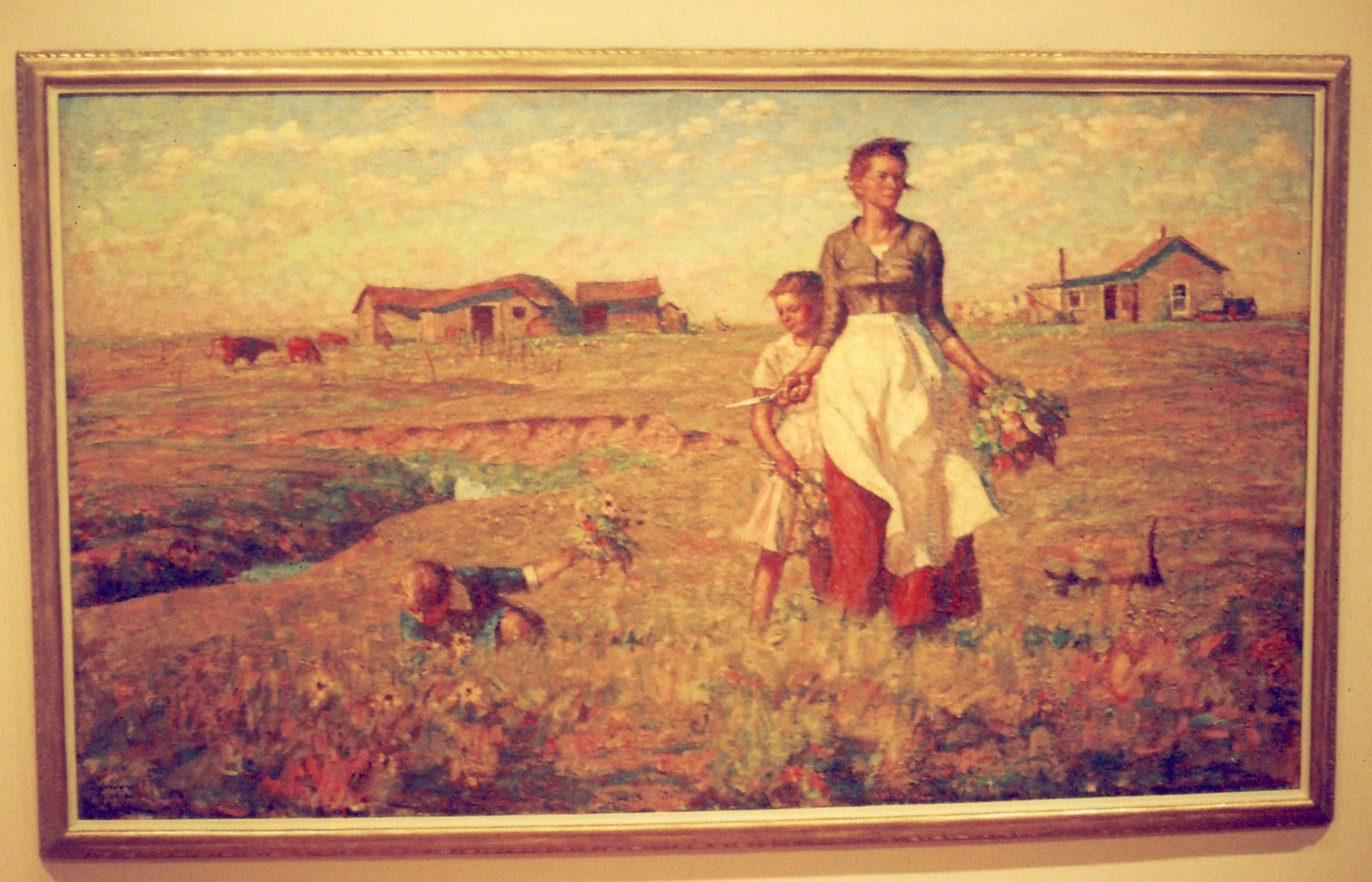 (1 in a multiple picture set) This is a museum with pieces from several artists from South Dakota. The painting pictured is called 'The Prairie is my Garden' by Harvey Dunn, the most well-known South Dakota Artist.